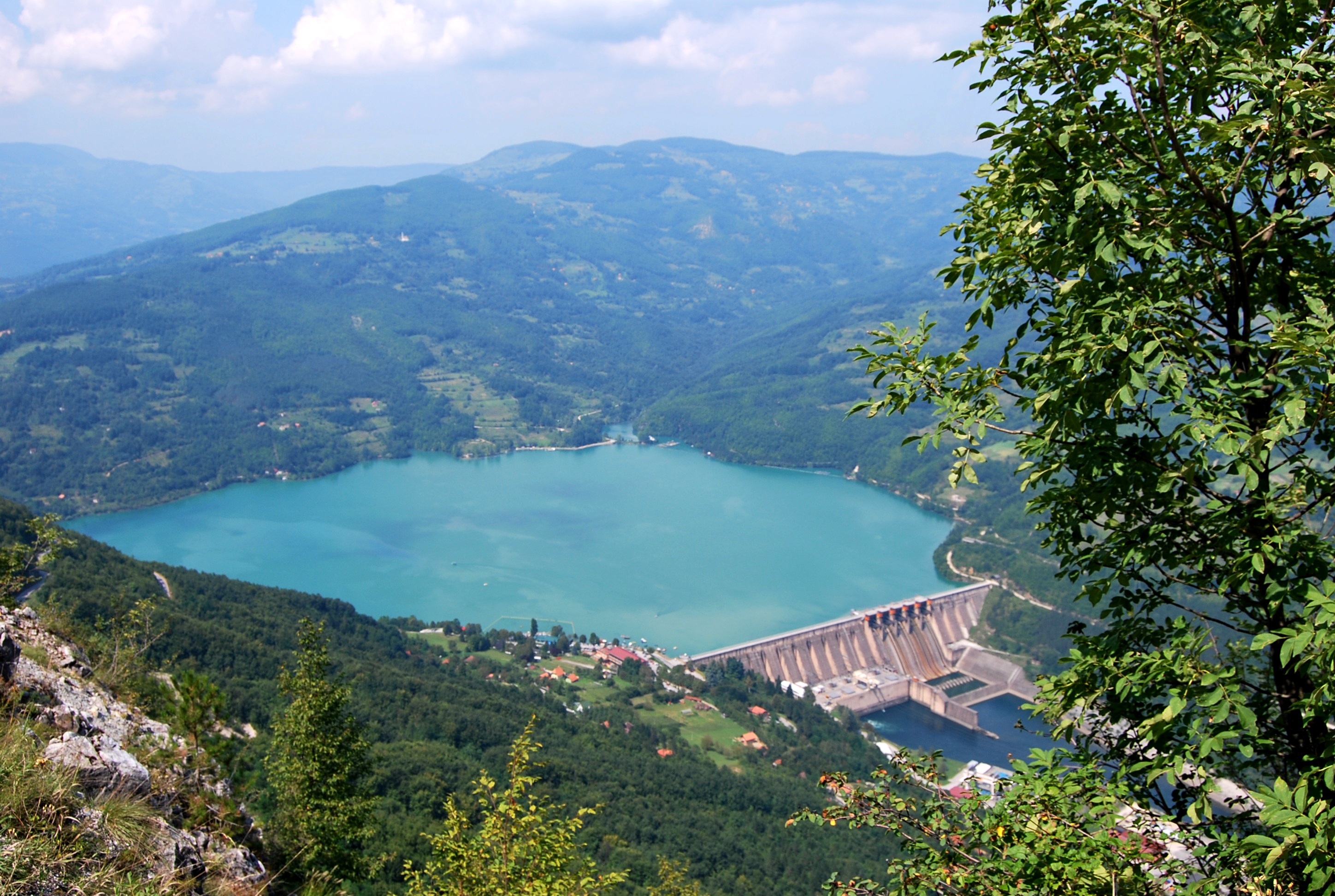 Perucac dam on the Drina river.